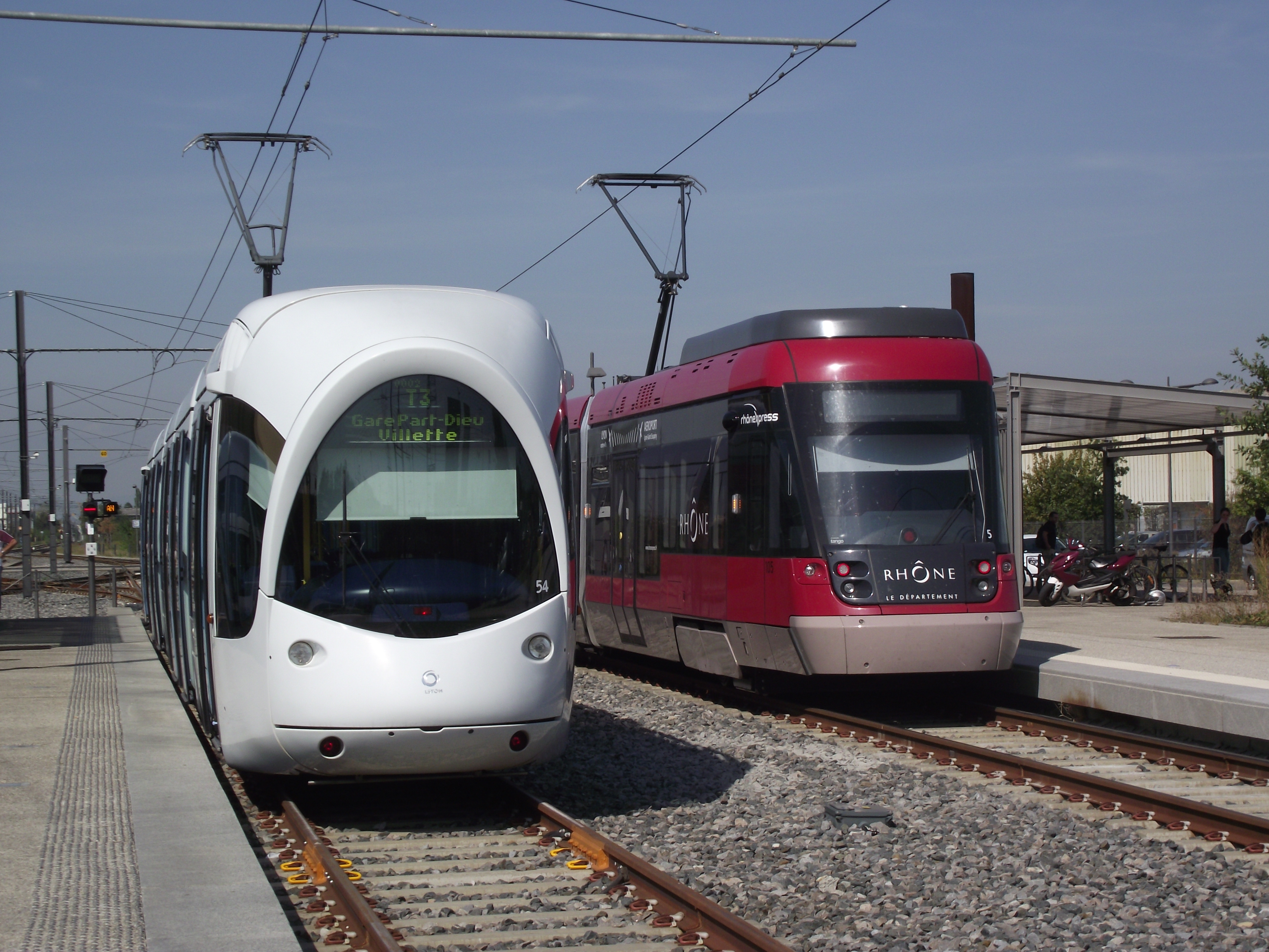 A T3 tram and Rhônexpress tram at Meyzieu Z.I. in direction of the City